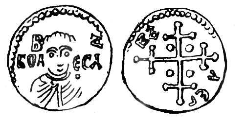 Denar of Boleslaw the Brave with Church Slavonic inscription: "W BOJA JA ZESL".